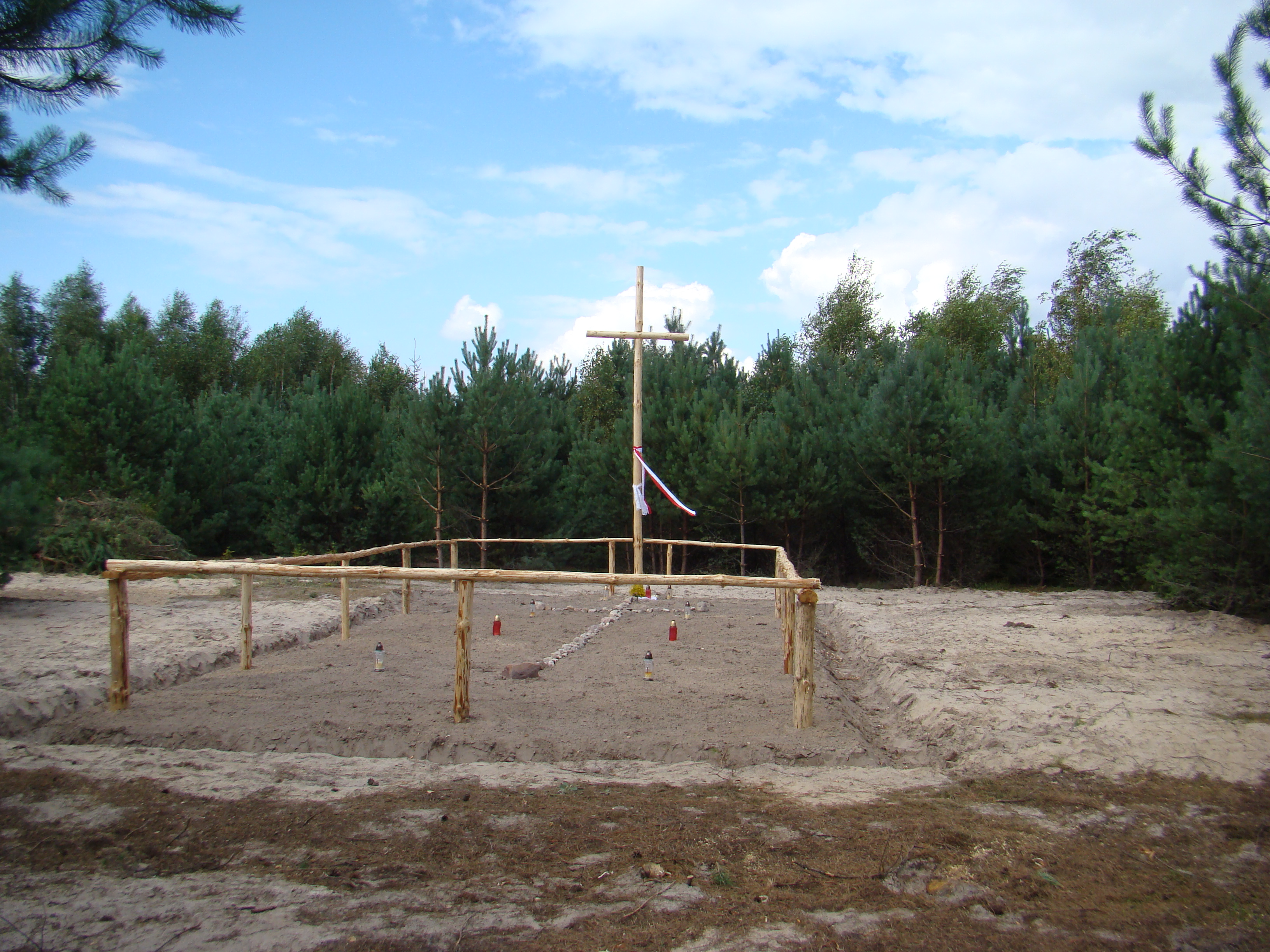 The Field of the Dead after exhumation